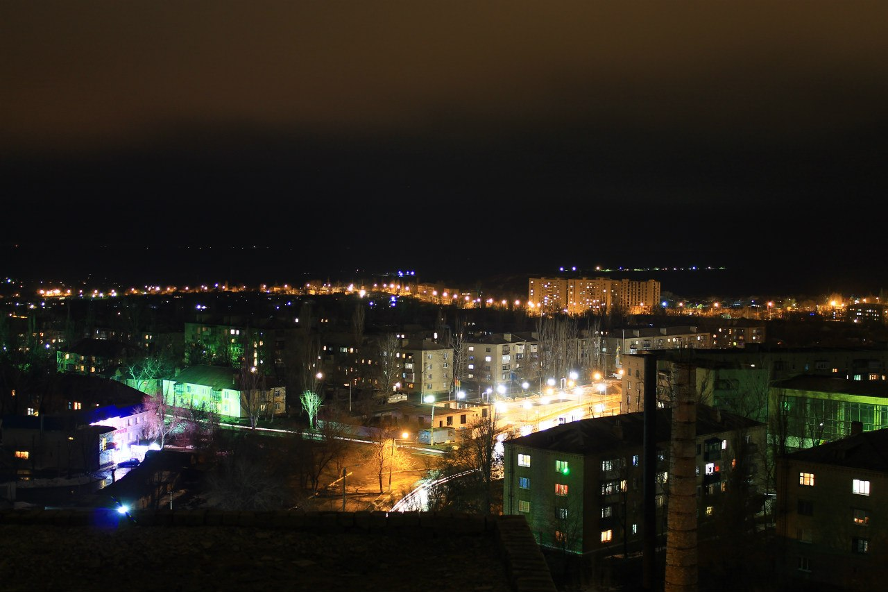 Krasnodon - the city where was born Arthur.